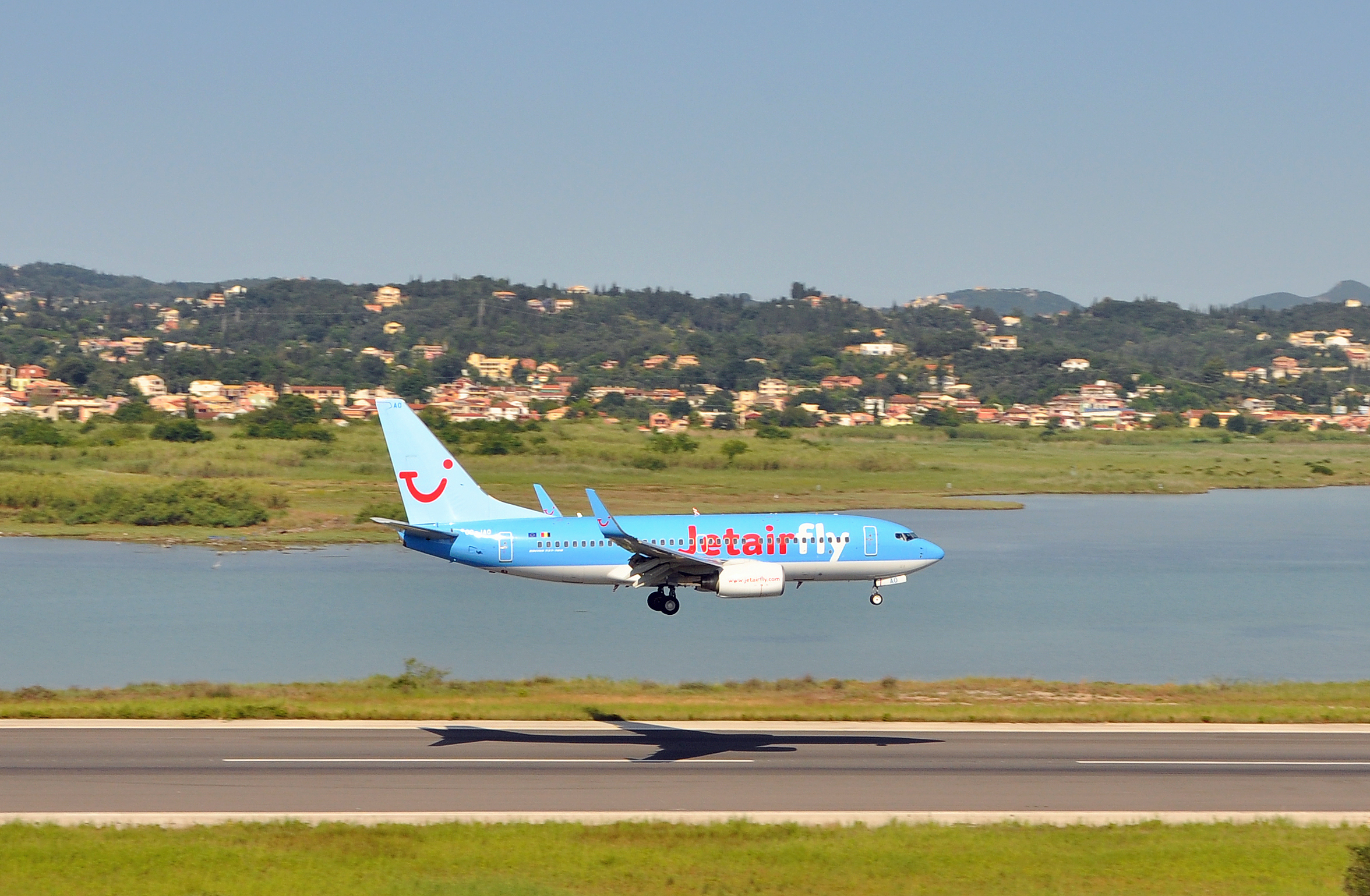 Boeing 737 of the Belgian carrier Jetairfly landing on Corfu International Airport, Greece